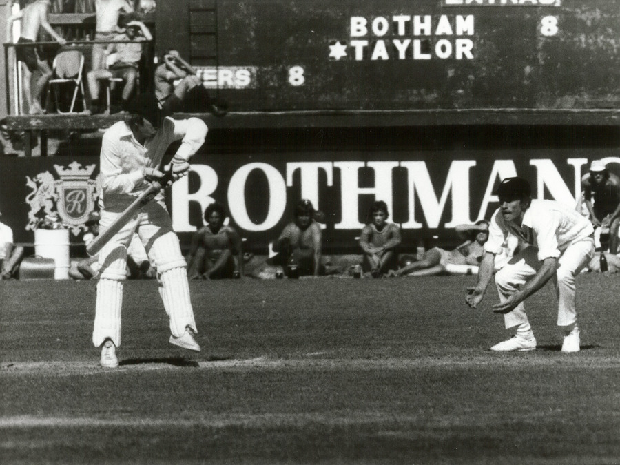 February 1978, Basin Reserve, Wellington AAQT 6539 W3537 box 16 L7/15/2/208